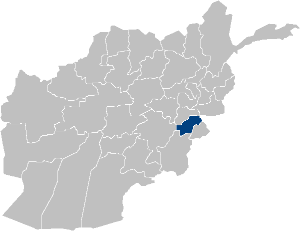 Location map for Paktia Province in Afghanistan. Original map source: Image:Afghanistan_provinces_blank.png